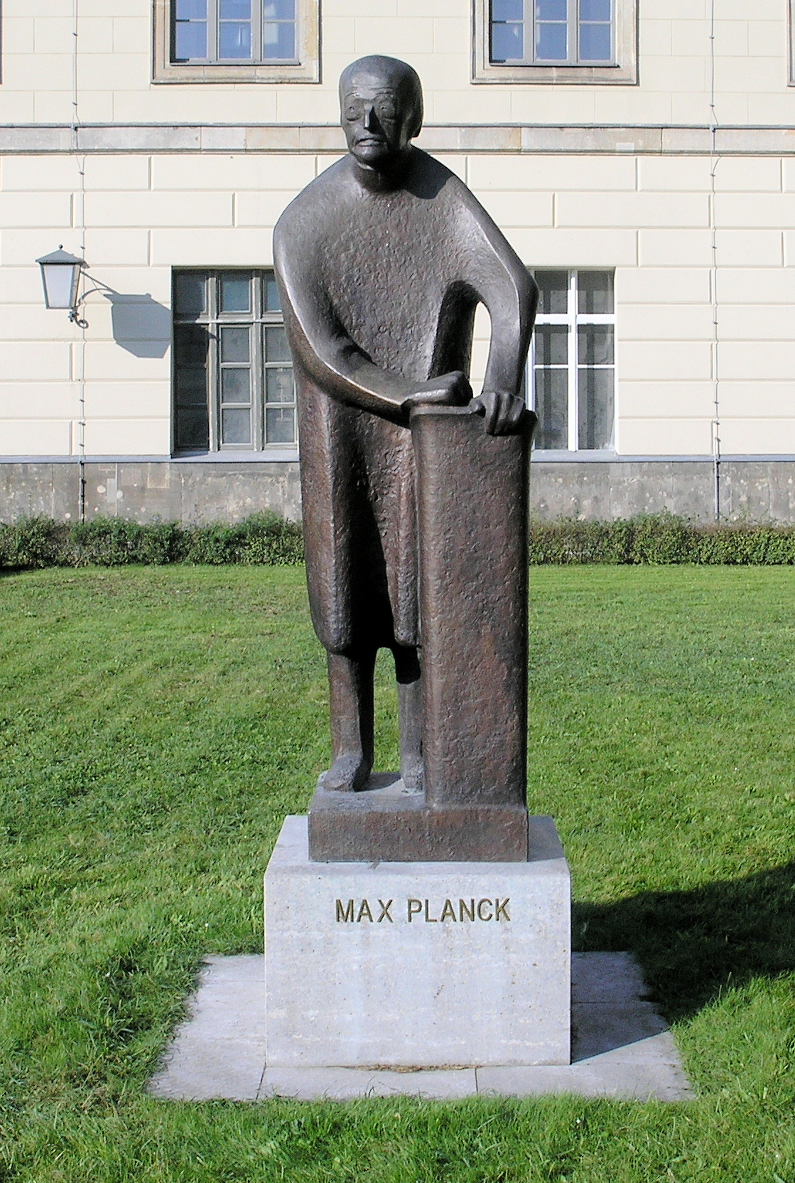 Memorial statue, "Max Planck" by Bernhard Heiliger, 1948/49, Unter den Linden 6, Berlin-Mitte, Germany